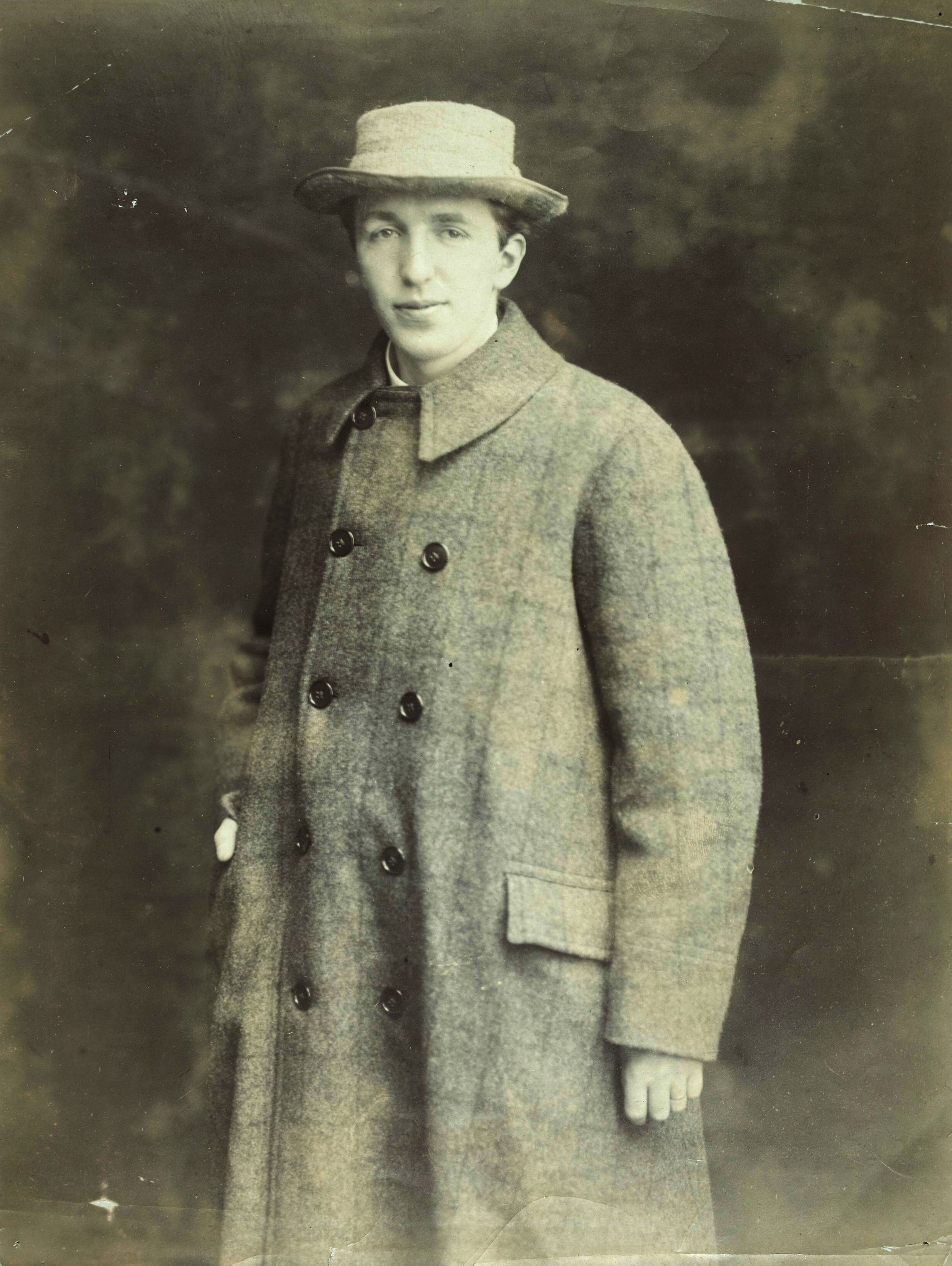 Photographic portrait of John Bulmer Hobson (1883-1969), an Irish revolutionary, a leading member of the Irish Volunteers and the Irish Republican Brotherhood (IRB) before the Easter Rising in 1916 by unknown photographer, The National Library of Ireland.